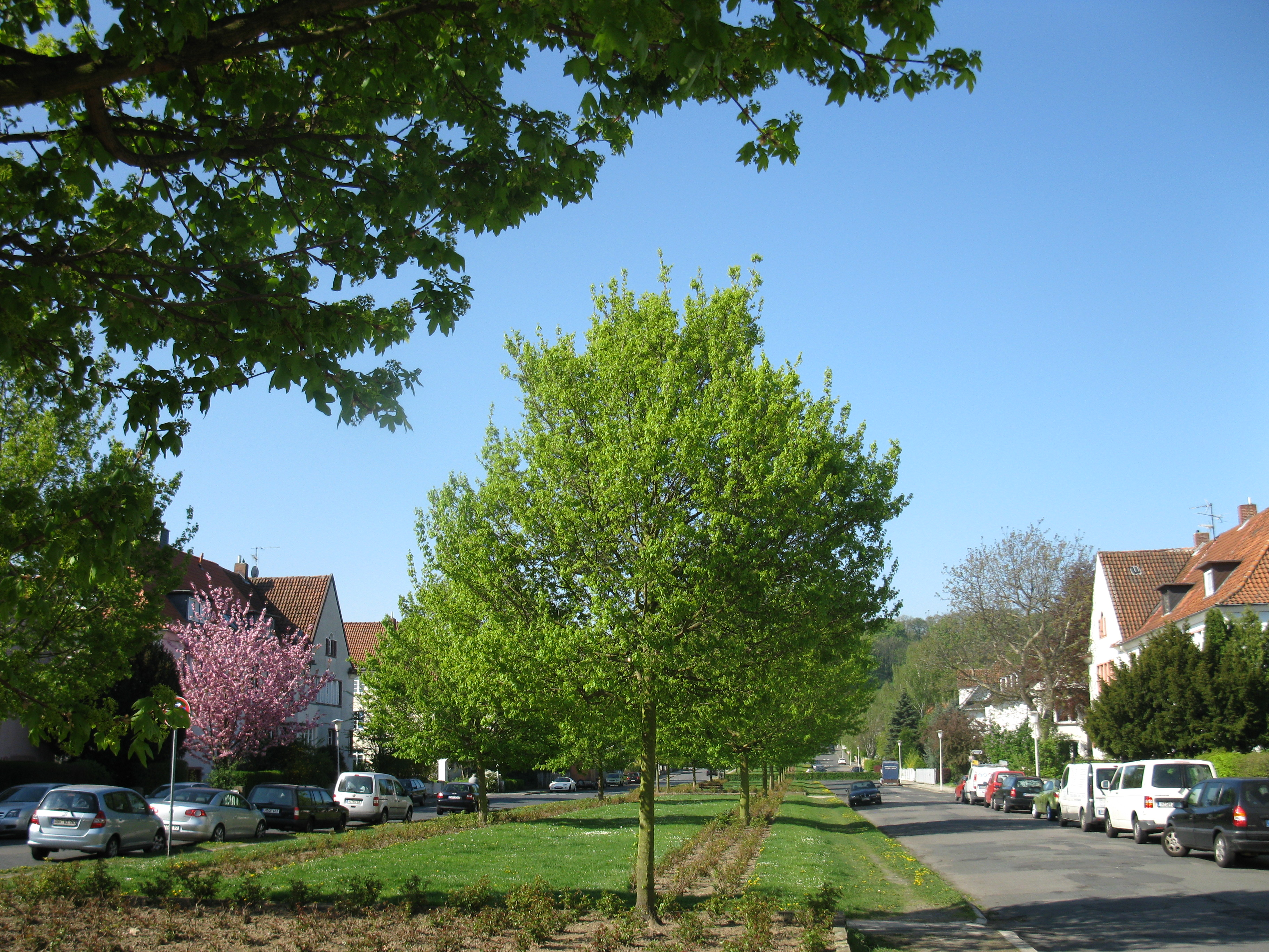 Mittelallee, Hildesheim, in April